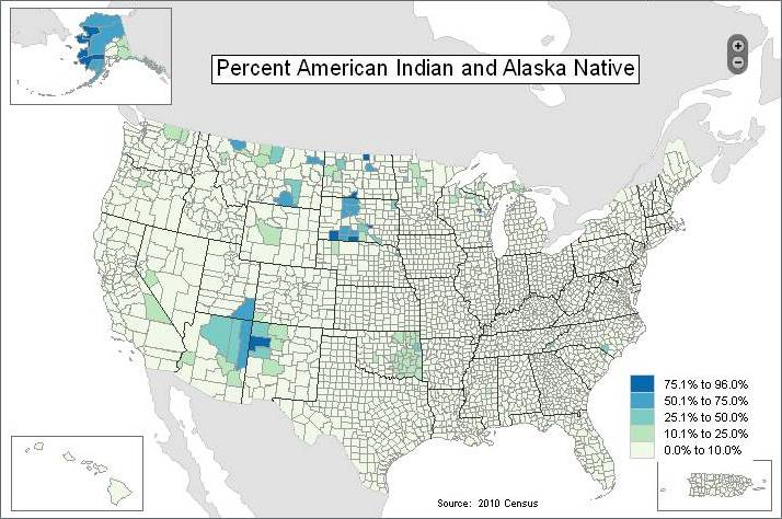 Native Population as a Percentage of County Population: 2010